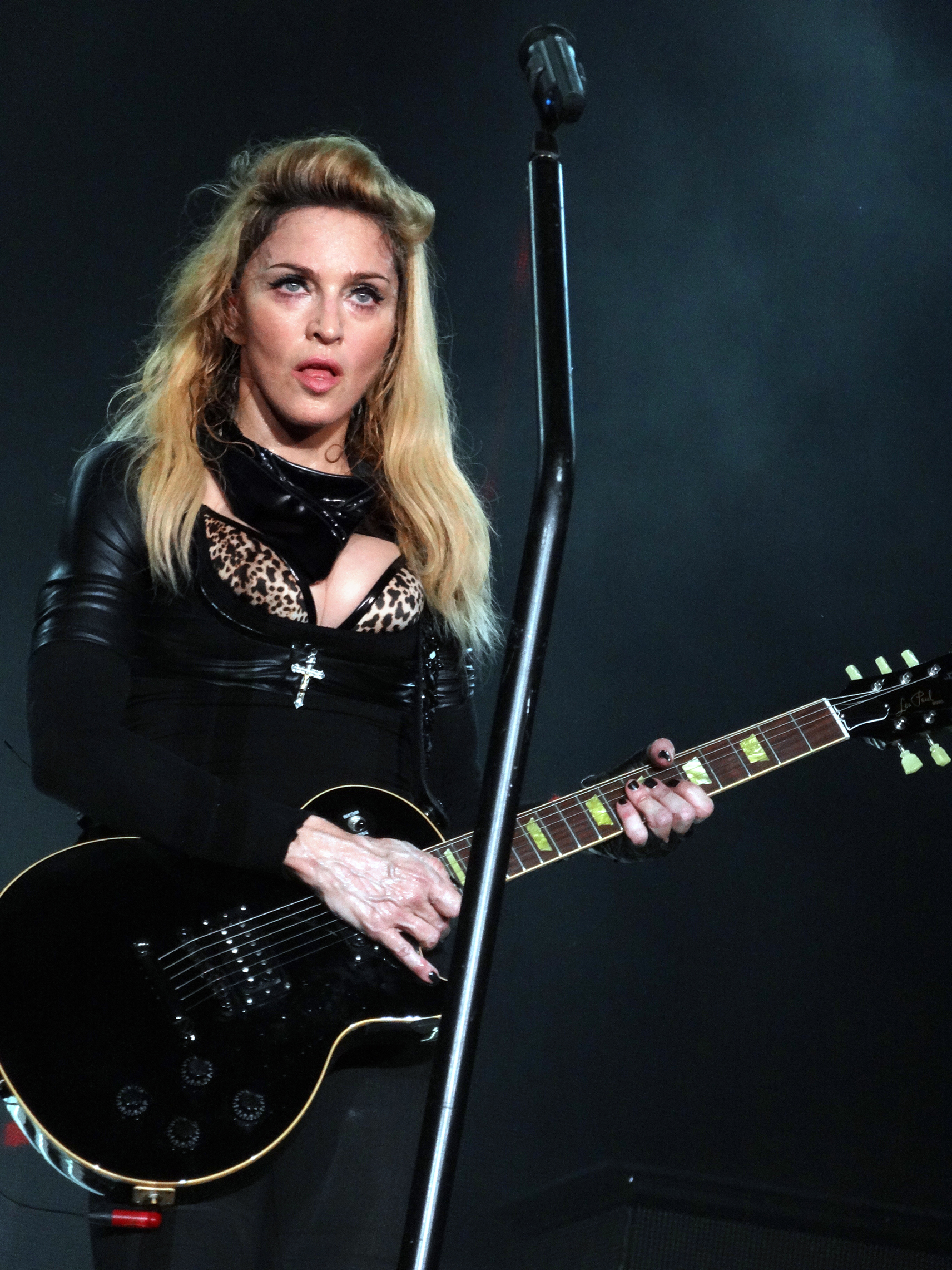 Madonna during her concert in Nice as part of her MDNA Tour on August 21, 2012.